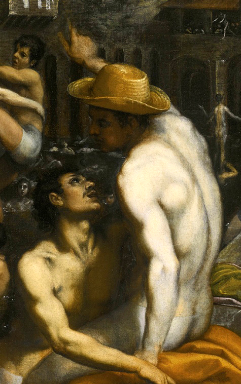 Part of the Painting Bathers at San Niccolò